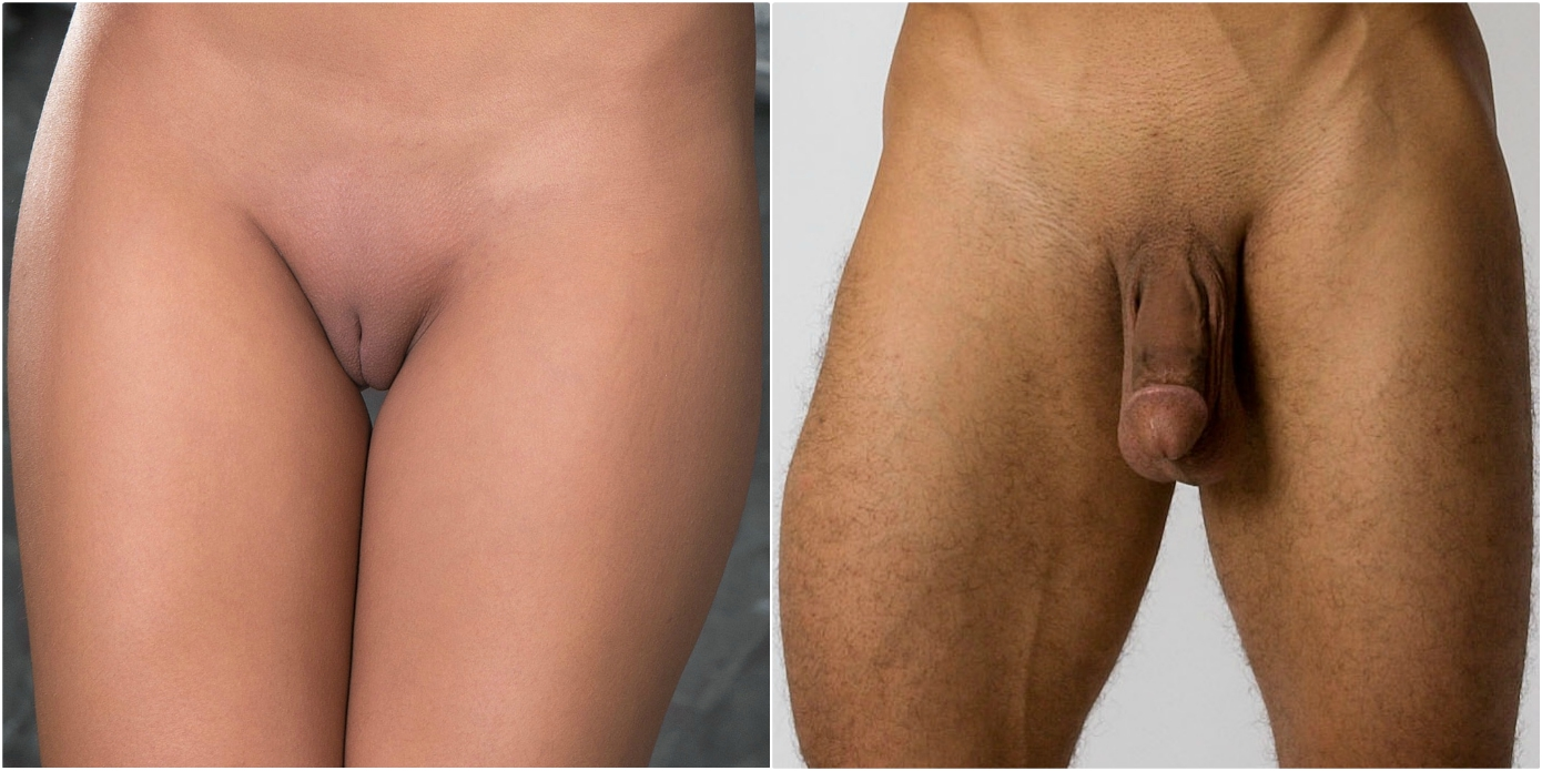 Shaved female and male genitalia from the front. The penis is circumcised since there is no foreskin covering the tip.